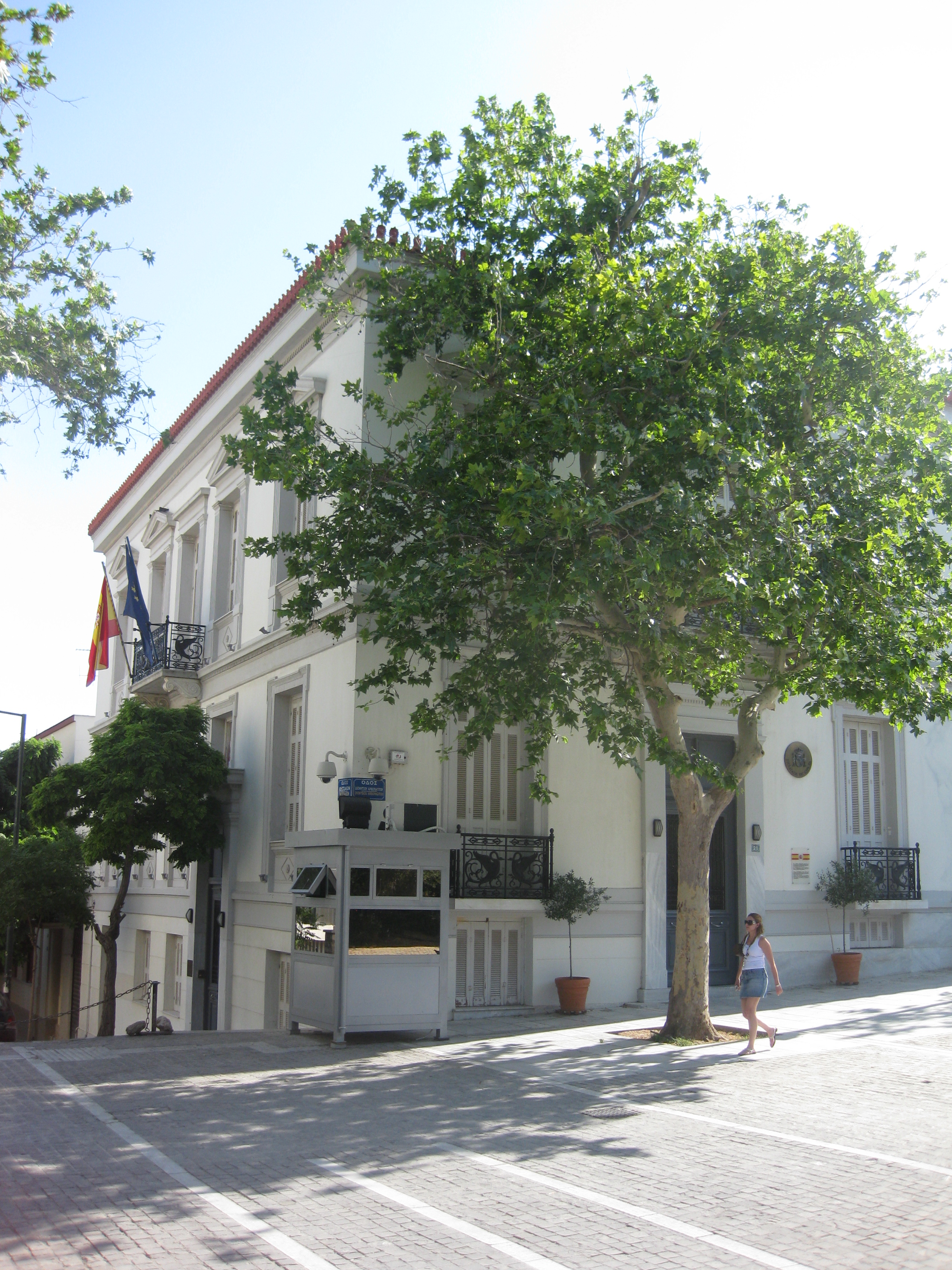 Today the Spanish Embassy in Greece. A building designed by Ernst Ziller in Athens.